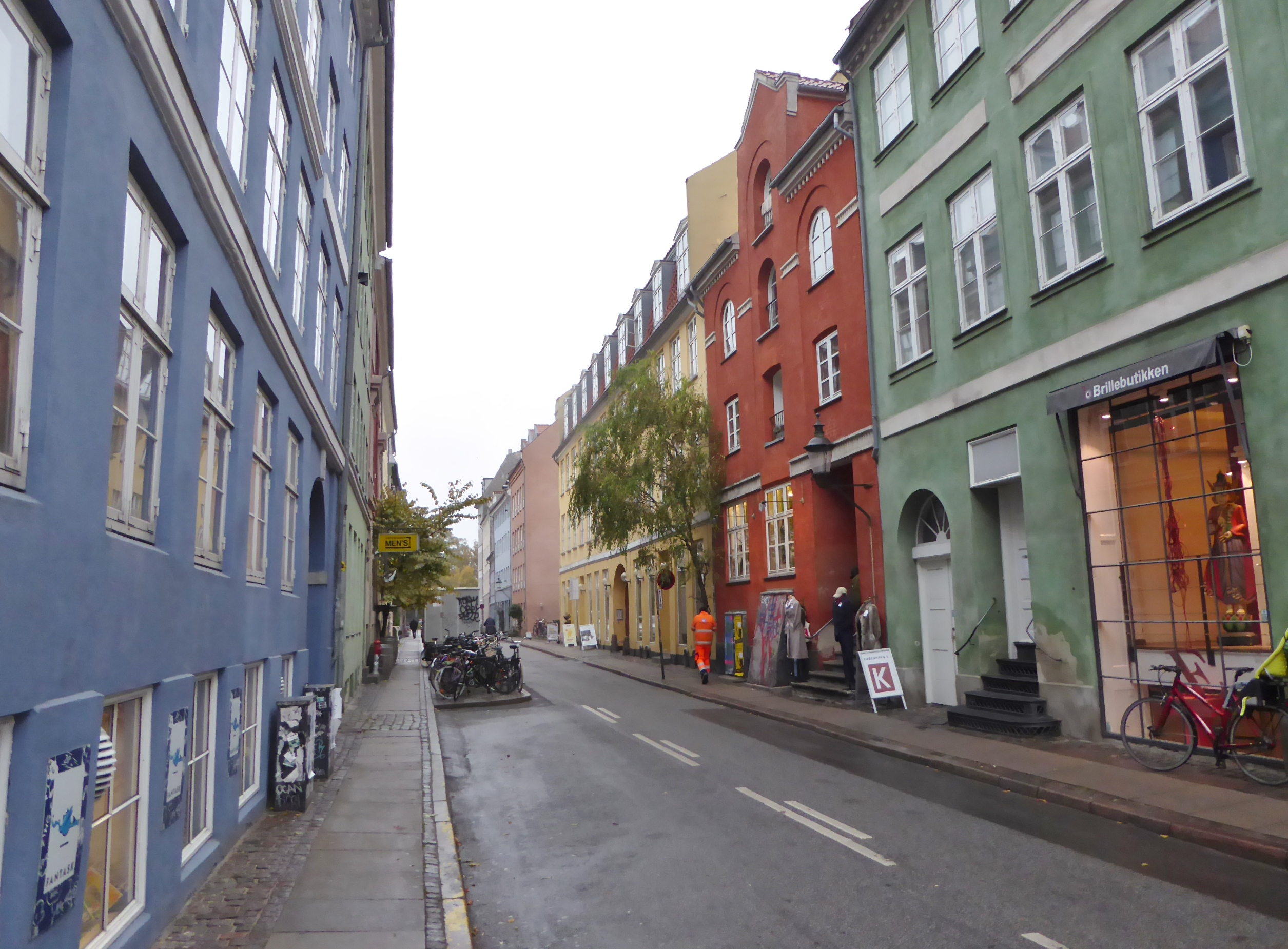 The street Teglgårdstræde in Indre By in Copenhagen.